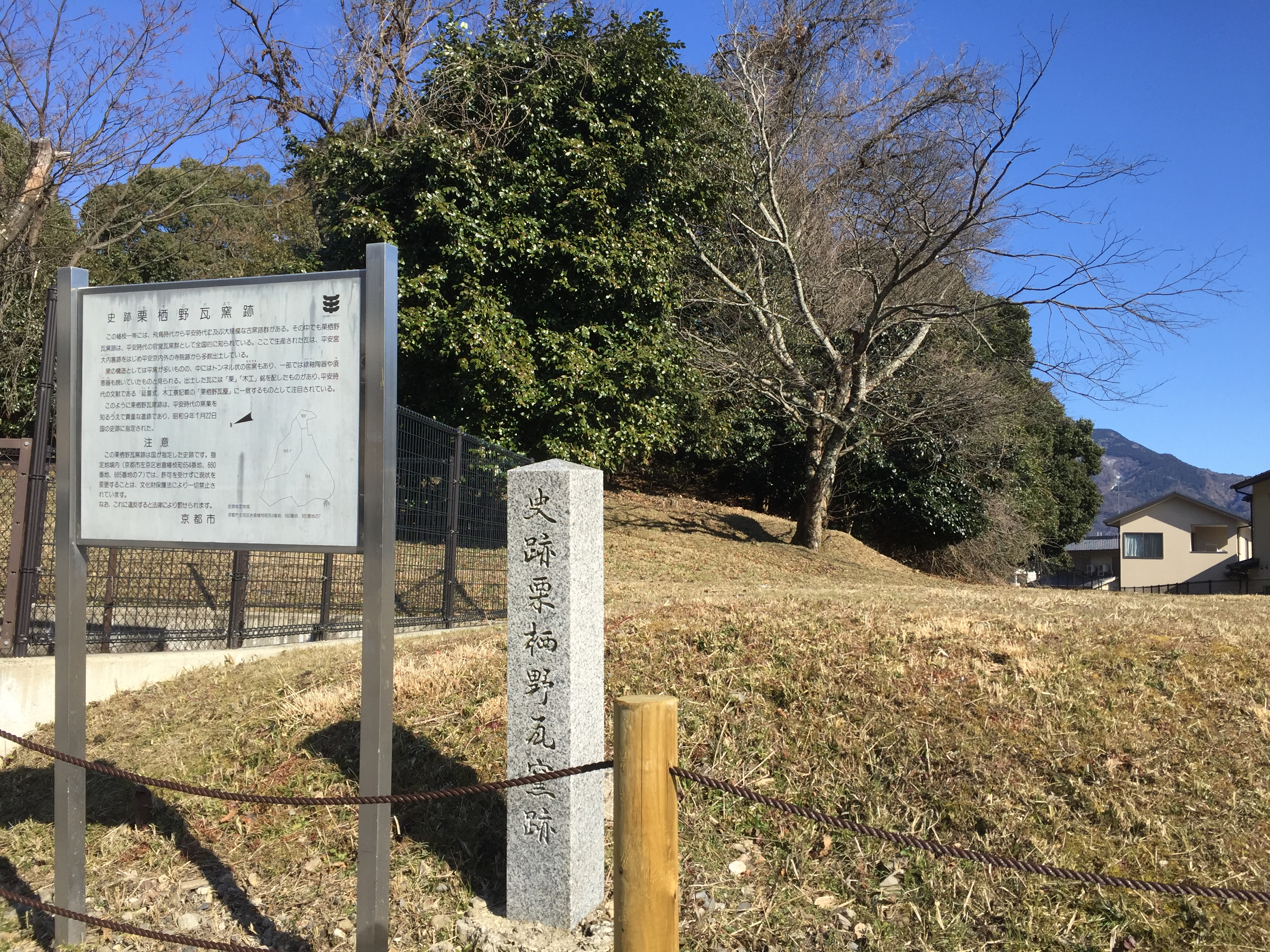 Kurusuno Kiln Site (a national historical site)